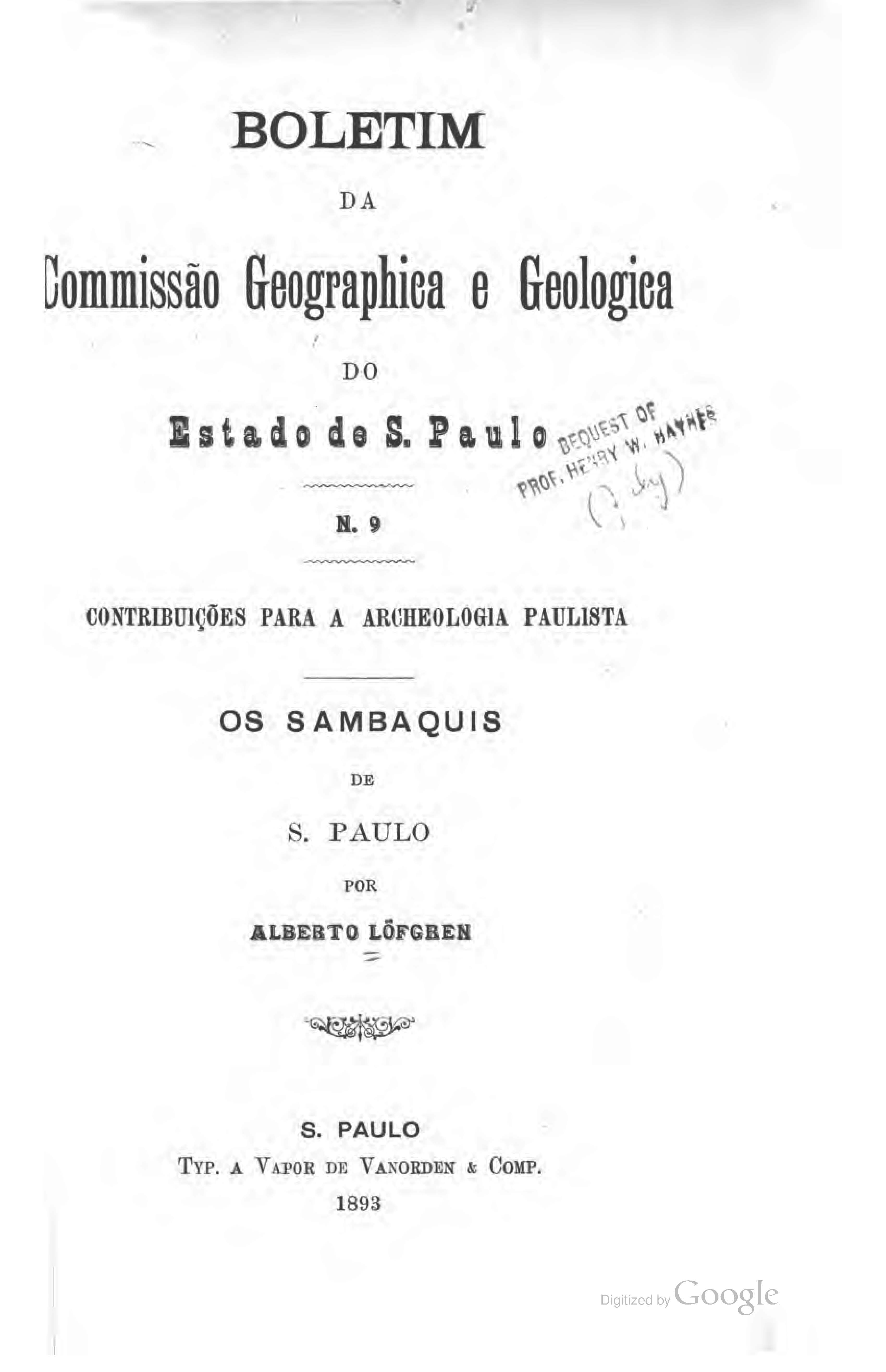 The sambaquis of São Paulo This file is an original and may be obsolete for general use, but is kept for historical or archival use. As such, it should not be modified or deleted except to correct upload or technical errors. Any modified versions or replacements of this image should be uploaded with a different file name. Information about this file: used on Wikisource ProofreadPage projects